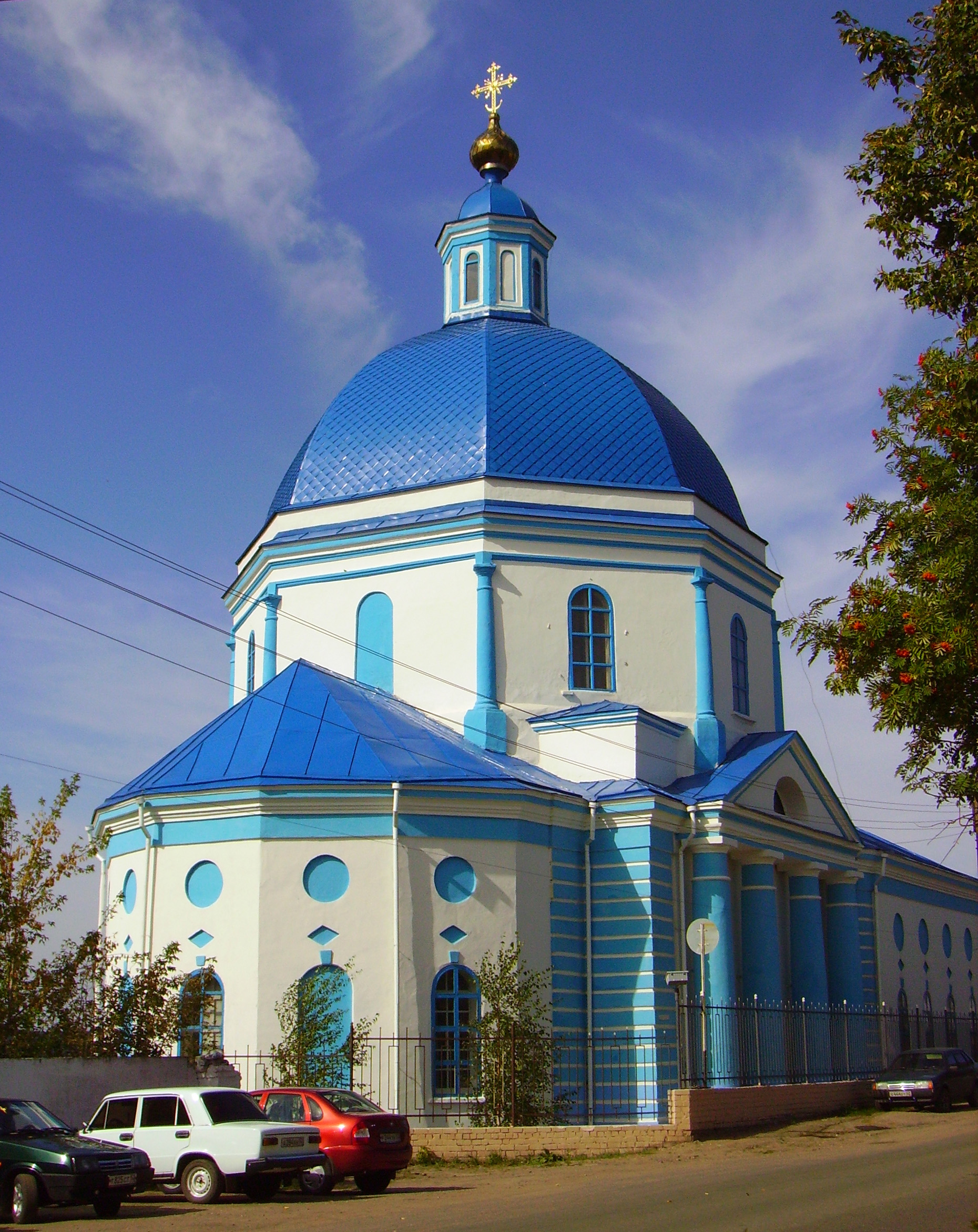 Vladimirsky Cathedral